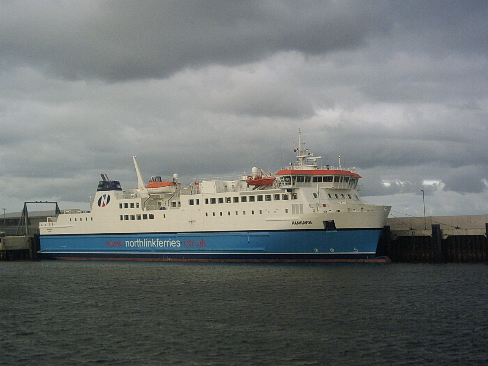 NorthLink ferry, MV Hamnavoe docked at Scrabster harbour.